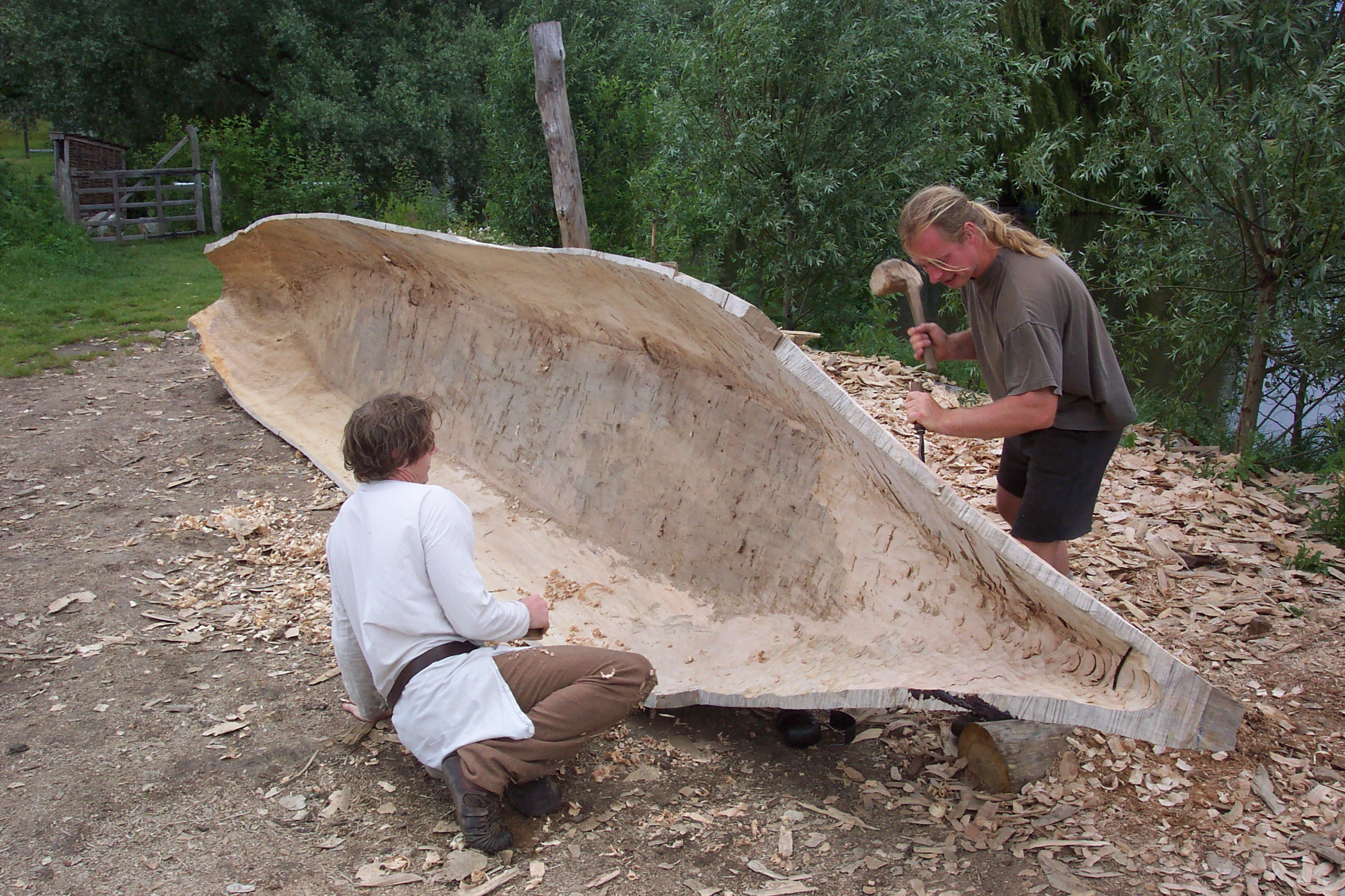 Building of a 10 meters (33 feet) seagoing dugout canoe